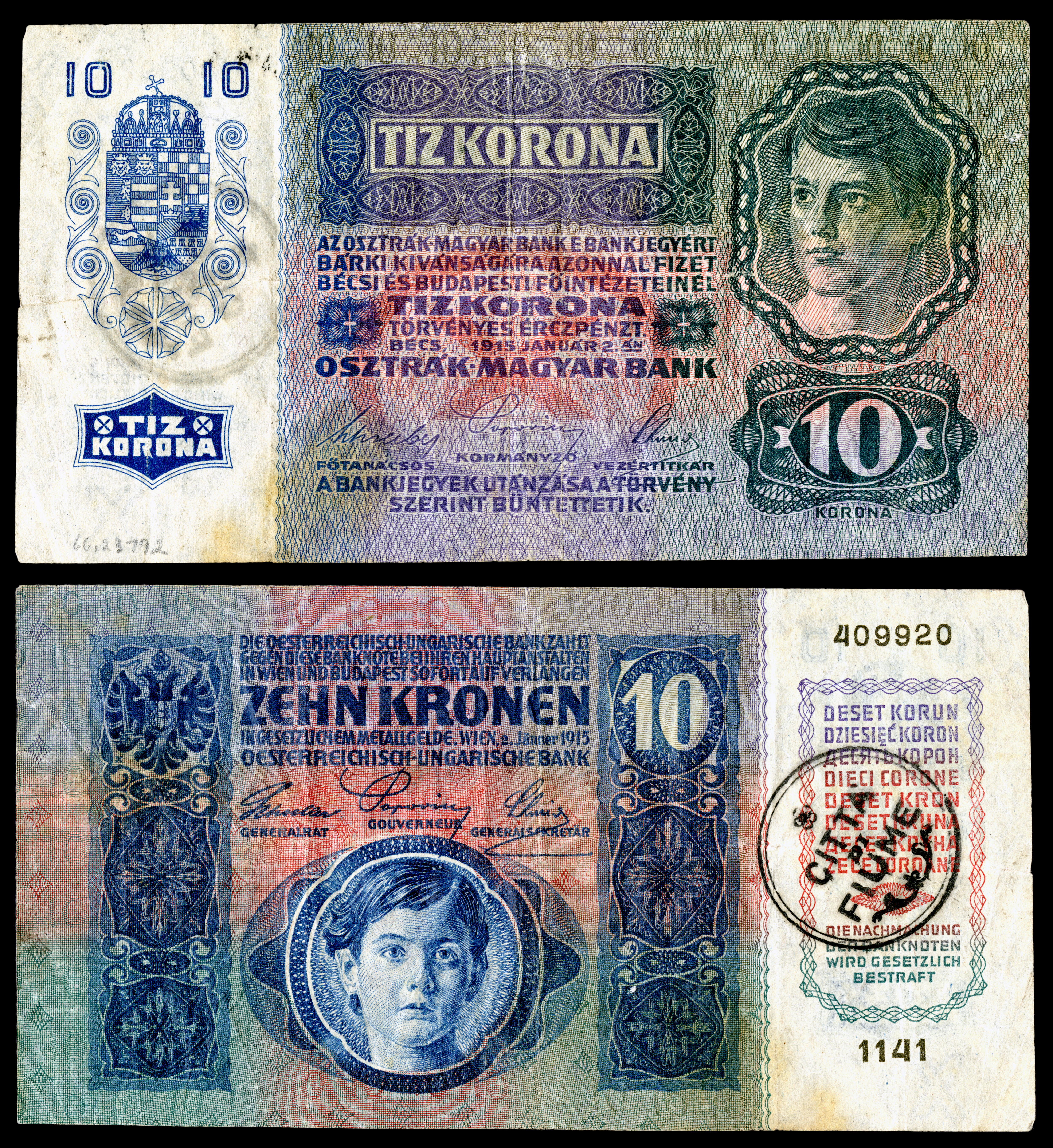 Free State of Fiume, 10 kronen, 1920 (Provisional issue) with over-stamp (using a 1915 Austro-Hungarian note).The 1920 provisional issue of Fiume banknotes used an earlier Austro-Hungarian Bank issue. The black circular over-stamp generally on the front side (in this case the reverse) served as validation of legal tender status in the Free State of Fiume.